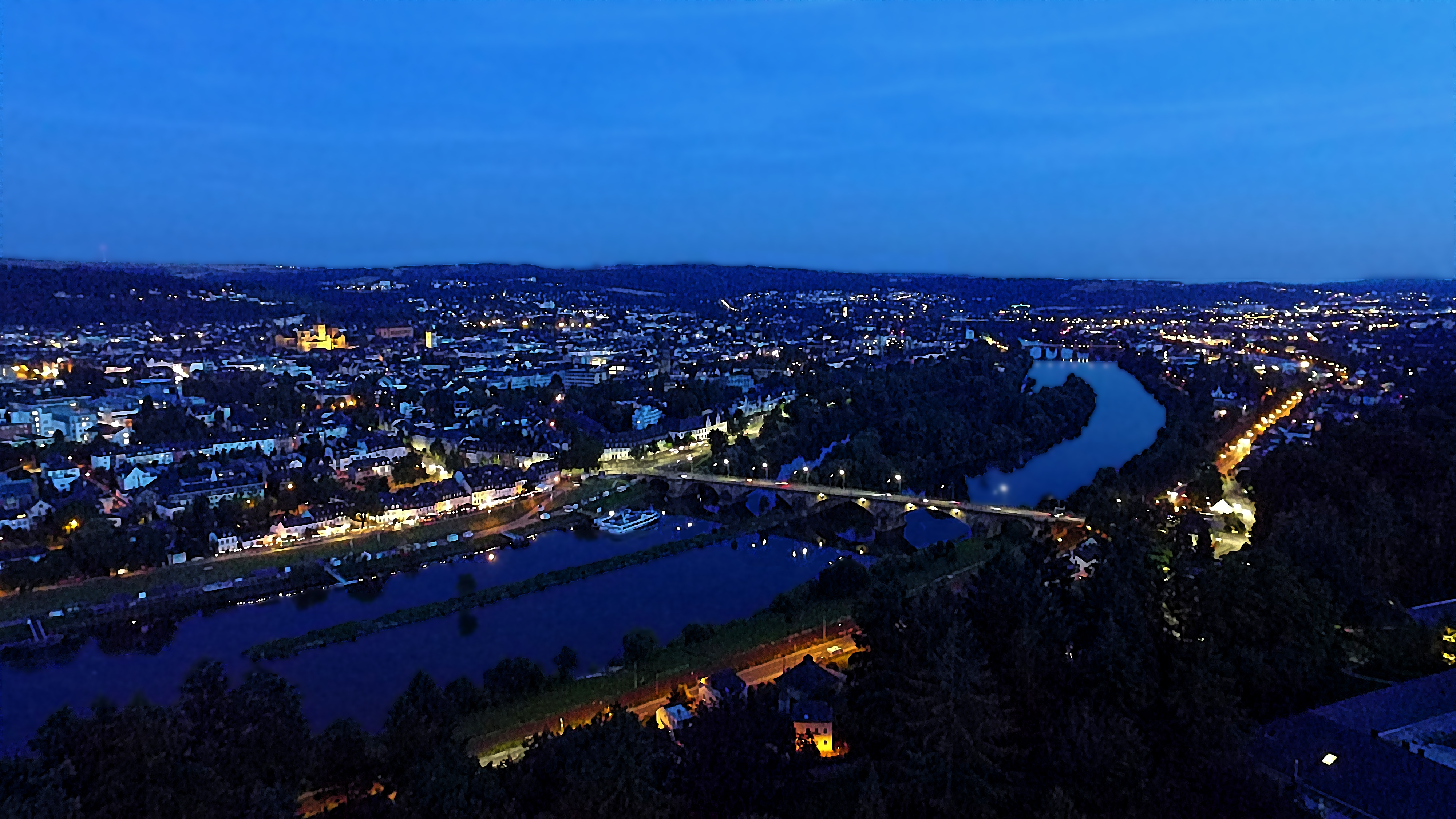 Trier by night, Moselle river an its brigdes